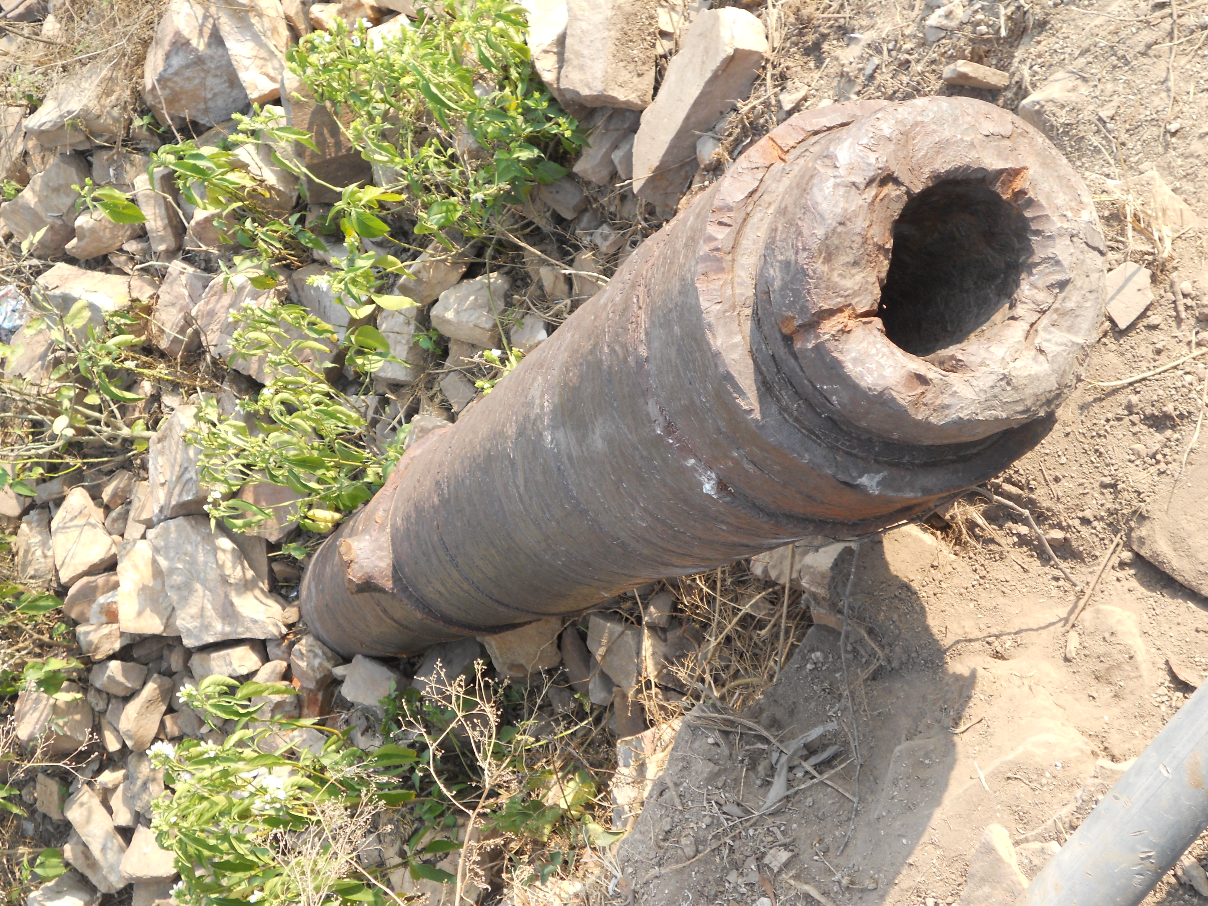 canon in sabalgarh fort